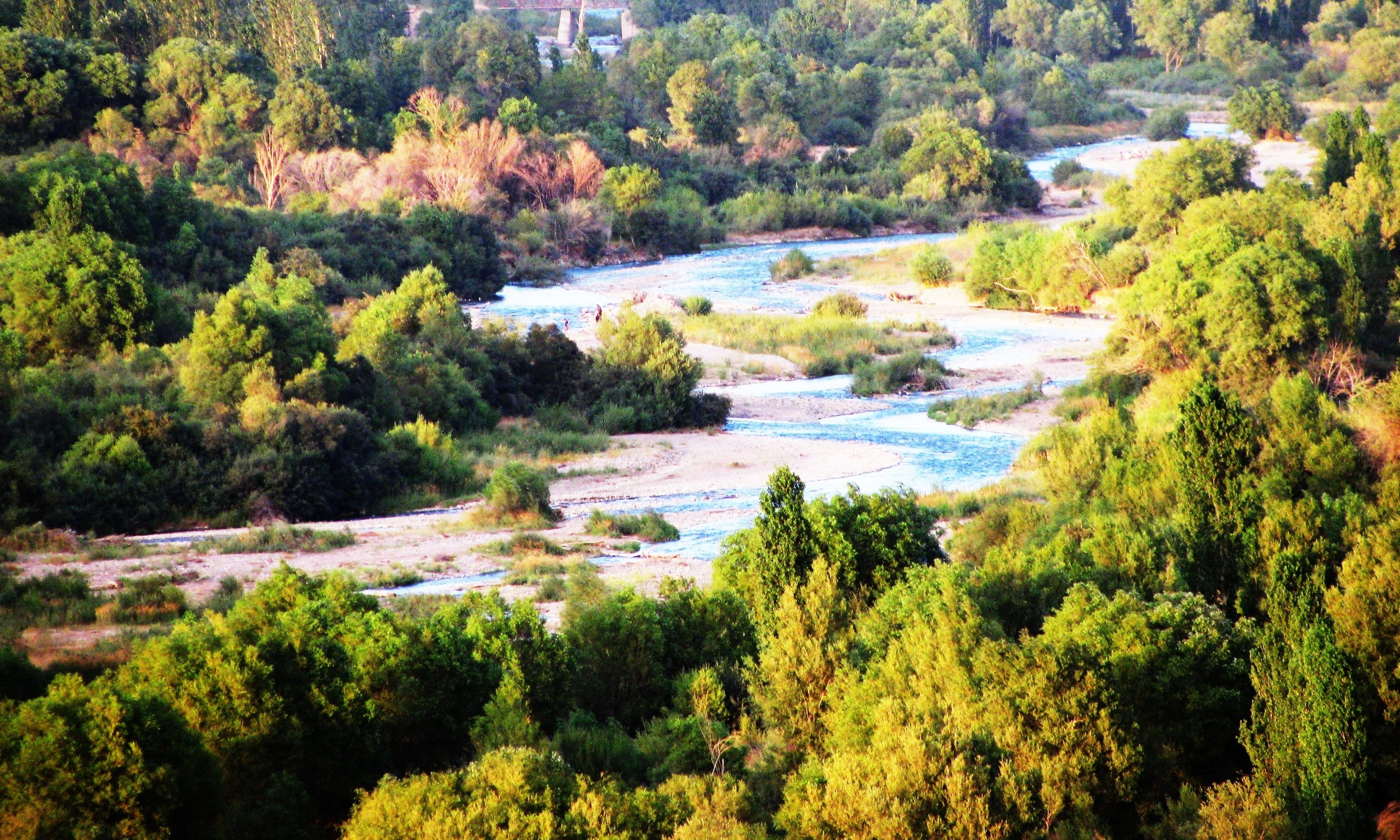 Shah rood, the river of Taleghan, Alborz, Iran